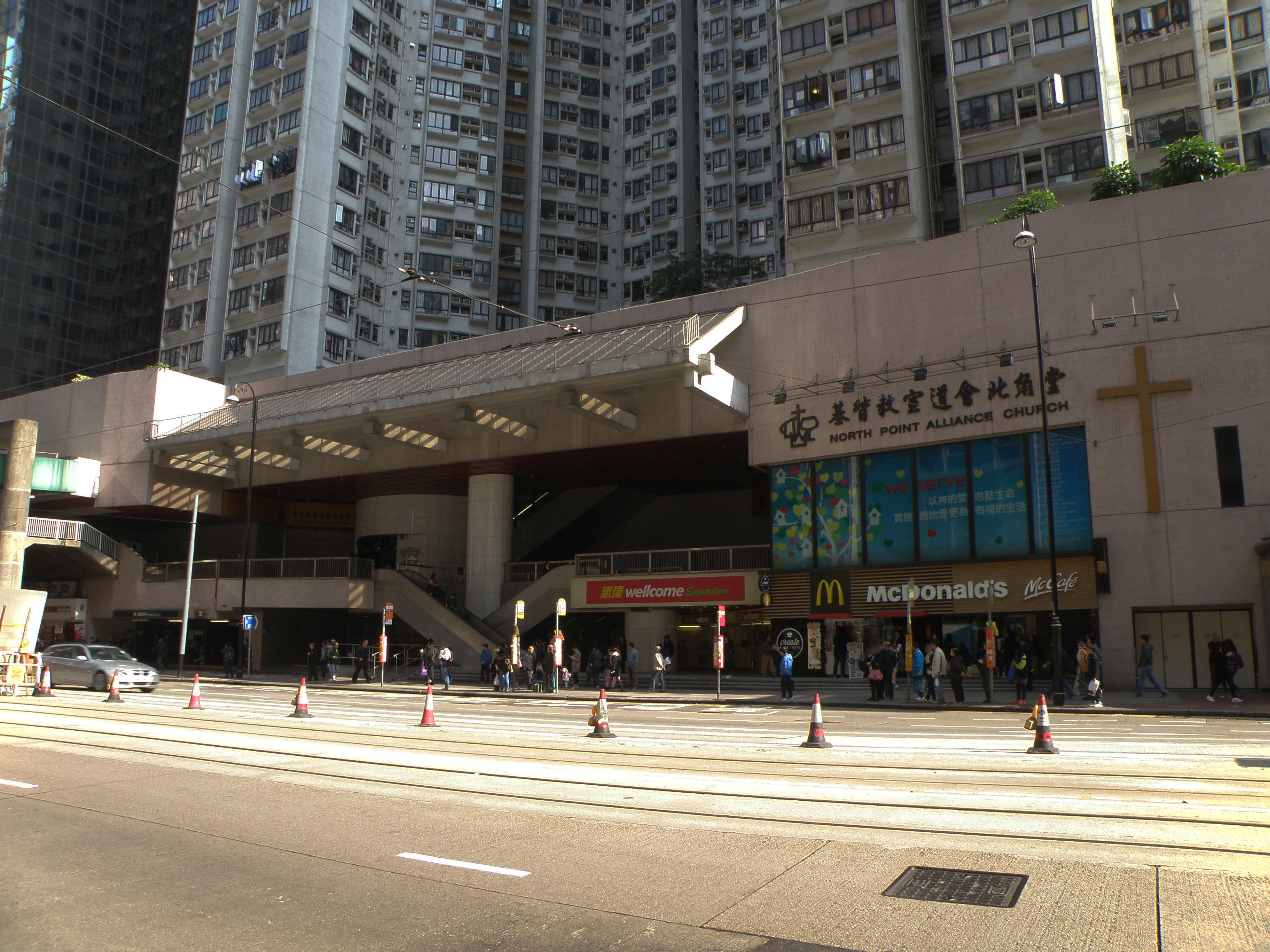 Fortress Metro Tower in Fortress Hill, Hong Kong.